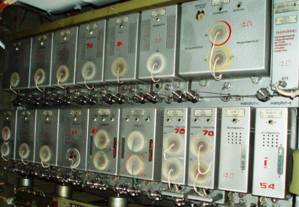 Soviet aircraft's on-board digital fire control computer.